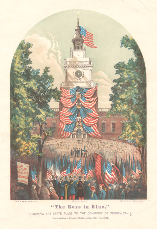 The print hows a large crowd of spectators surrounding a platform of dignitaries in Independence Square for the July 4th celebration commemorating the return of colors to the state by the Pennsylvania regiments. Veterans from over one-hundred regiments and the orphan children of soldiers and sailors killed during the Civil War attended the ceremony officiated by Mayor General George G. Meade and Governor Andrew G. Curtin.